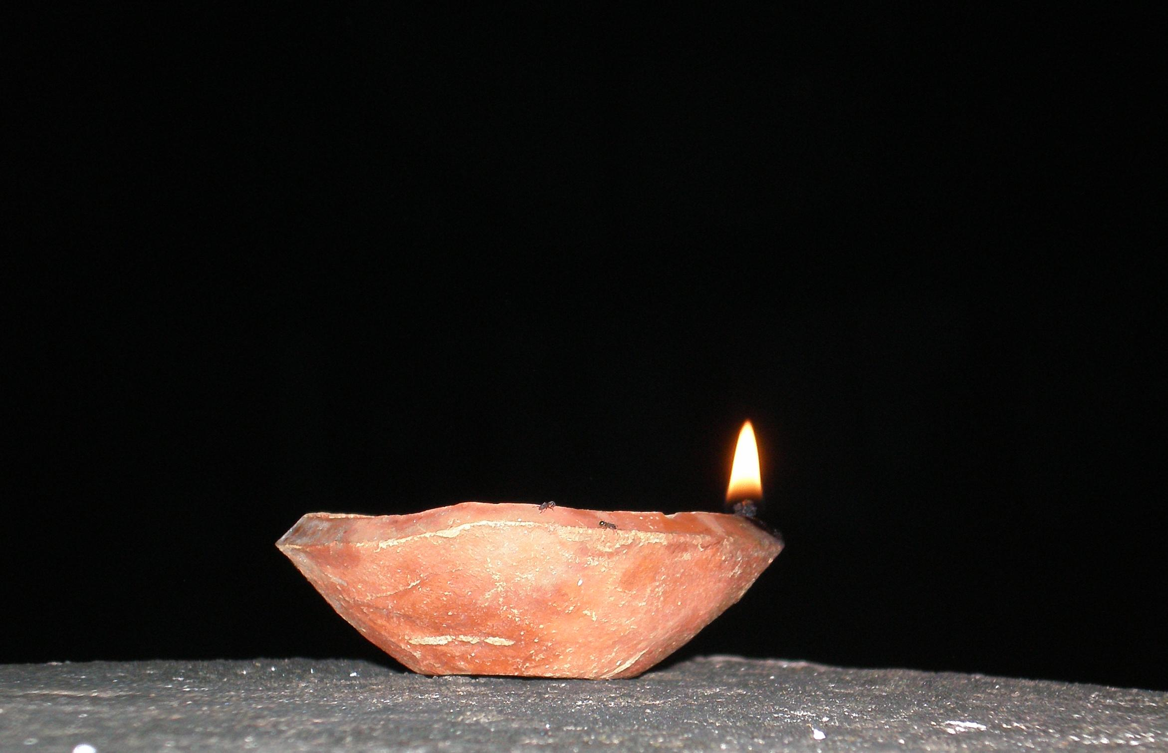 Traditional Indian Diya